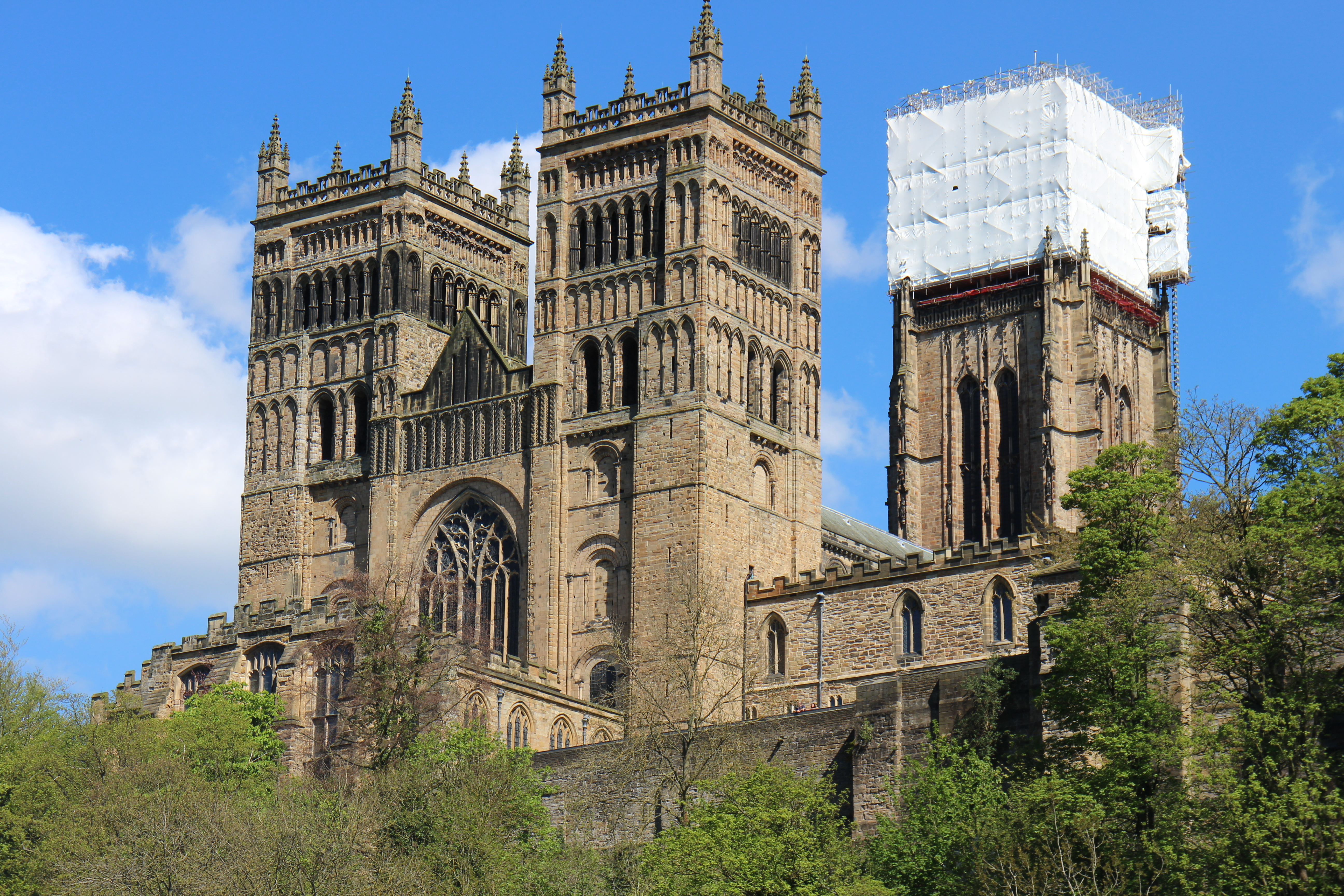 Durham Cathedral